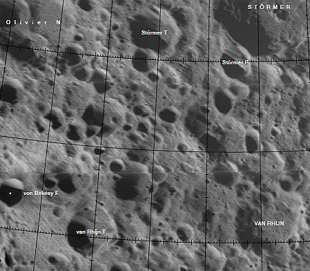 Except from the USGS Digital Atlas of the Moon.